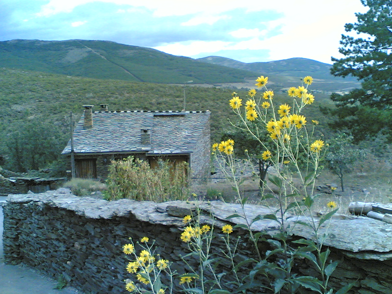 Author, Cme